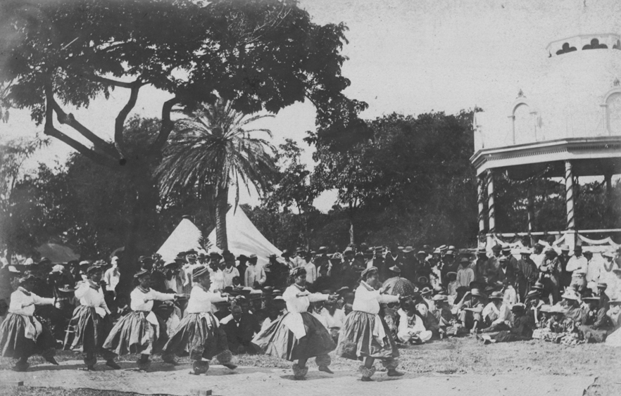 Hula performance by the Honolulu dancers at King Kalakaua's 49th Birthday Hula.